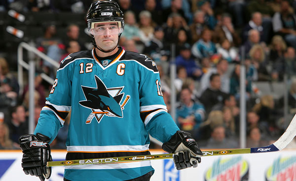 Patrick Marleau at a home game at HP Pavilion in San Jose.